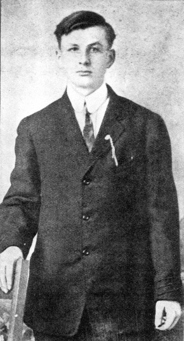 1921 Portrait of Martin Tabert, whose death in a Putnam Lumber Company camp in Dixie County ended the abusive practice of leasing out prisoners by corrupt county sheriffs in Florida.